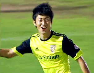 Xu Deshuai playing for Sun Pegasus FC in 2012-13